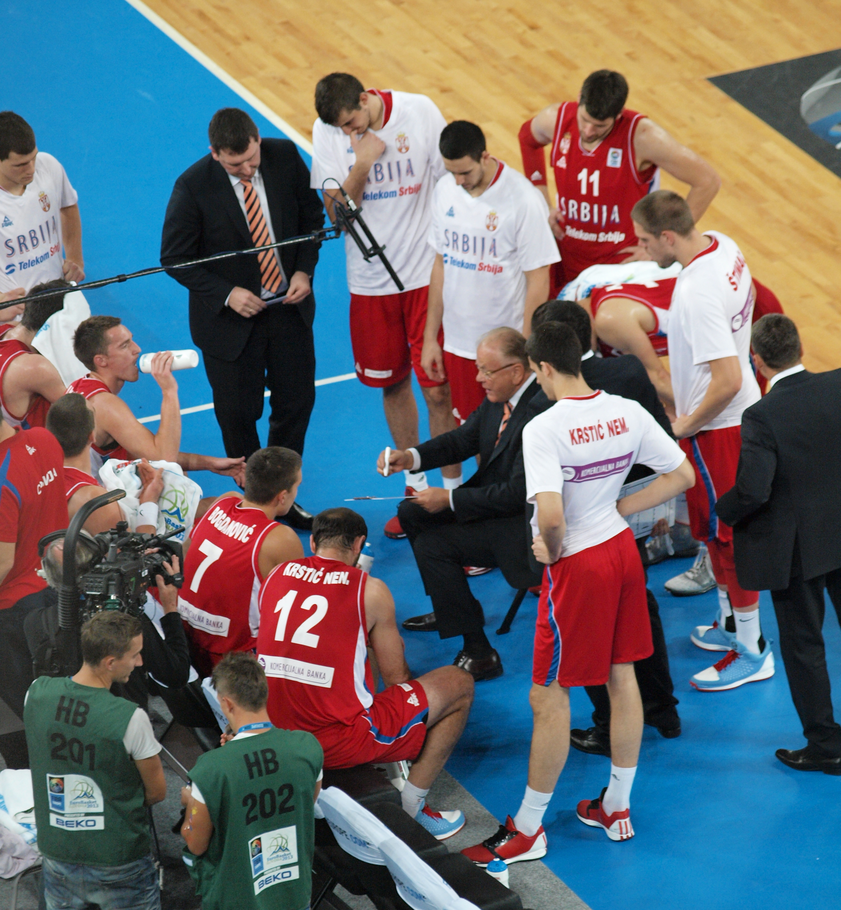 Serbian team timeout by Duda Ivković, Eurobasket 2013. Српски (ћирилица): Тренер Душан Ивковић даје консултације за време одмора на утакмици Србија-Украјина, Еуробаскет 2013 у Словенији.